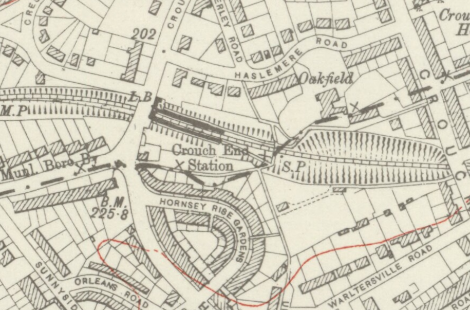 Crouch End station in north London on a 1920 Ordnance Survey map.